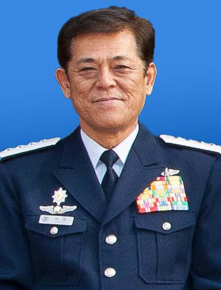 Gen. Harukazu Saitoh, Chief of Staff, Japan Air Self-Defense Force